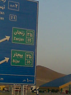 Road 35 and Freeway 2 in Iran